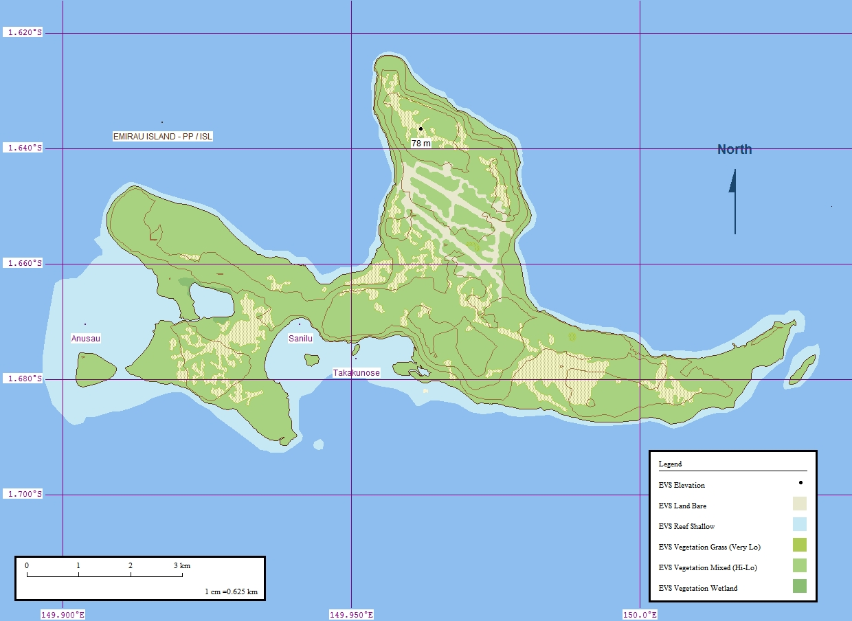 map of Emirau Island, St Matthias Islands, Bismarck Archipelago, Papua New Guinea